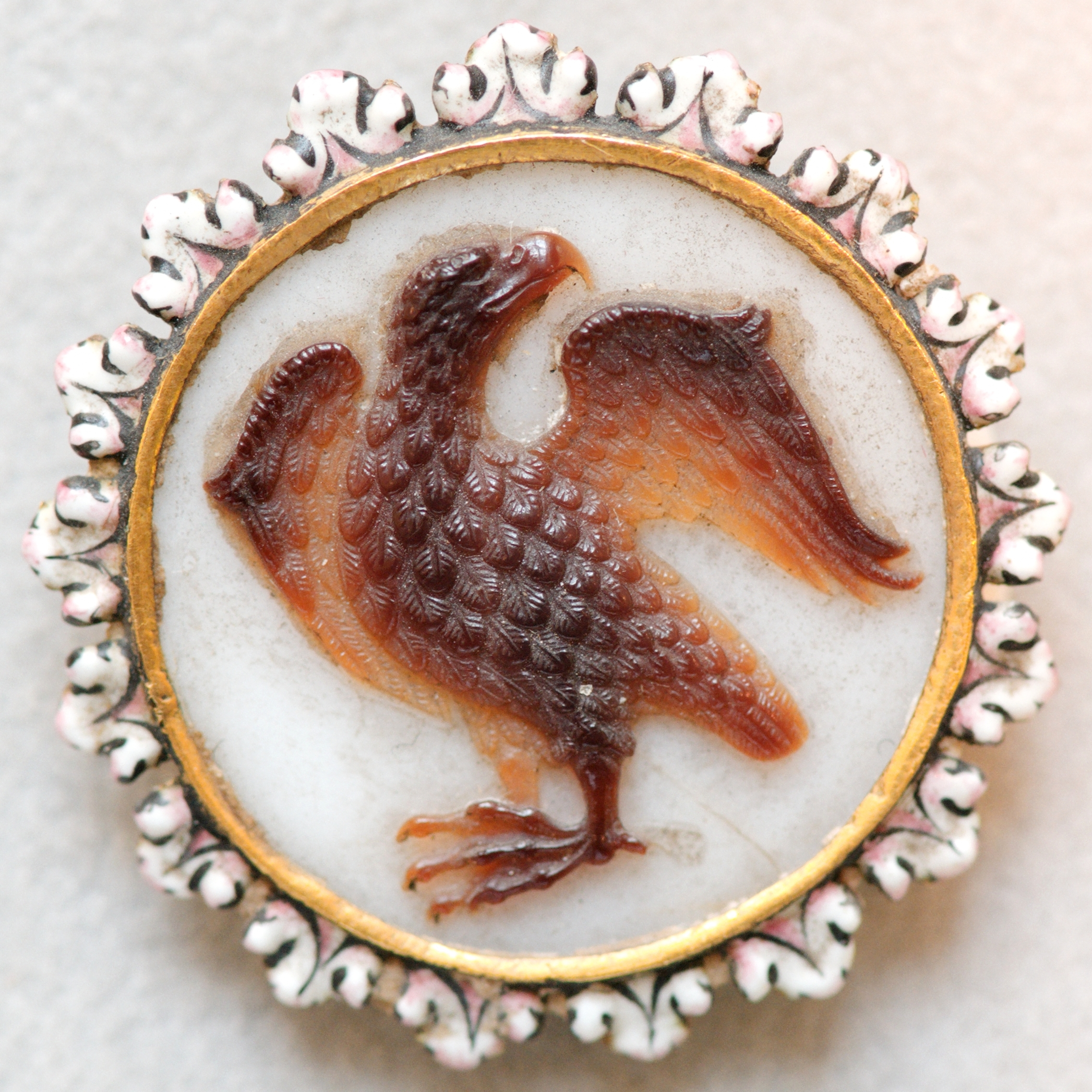 Eagle. Sardonyx cameo, South Italy, court of Frederick II of Hohenstaufen, ca. 1240.